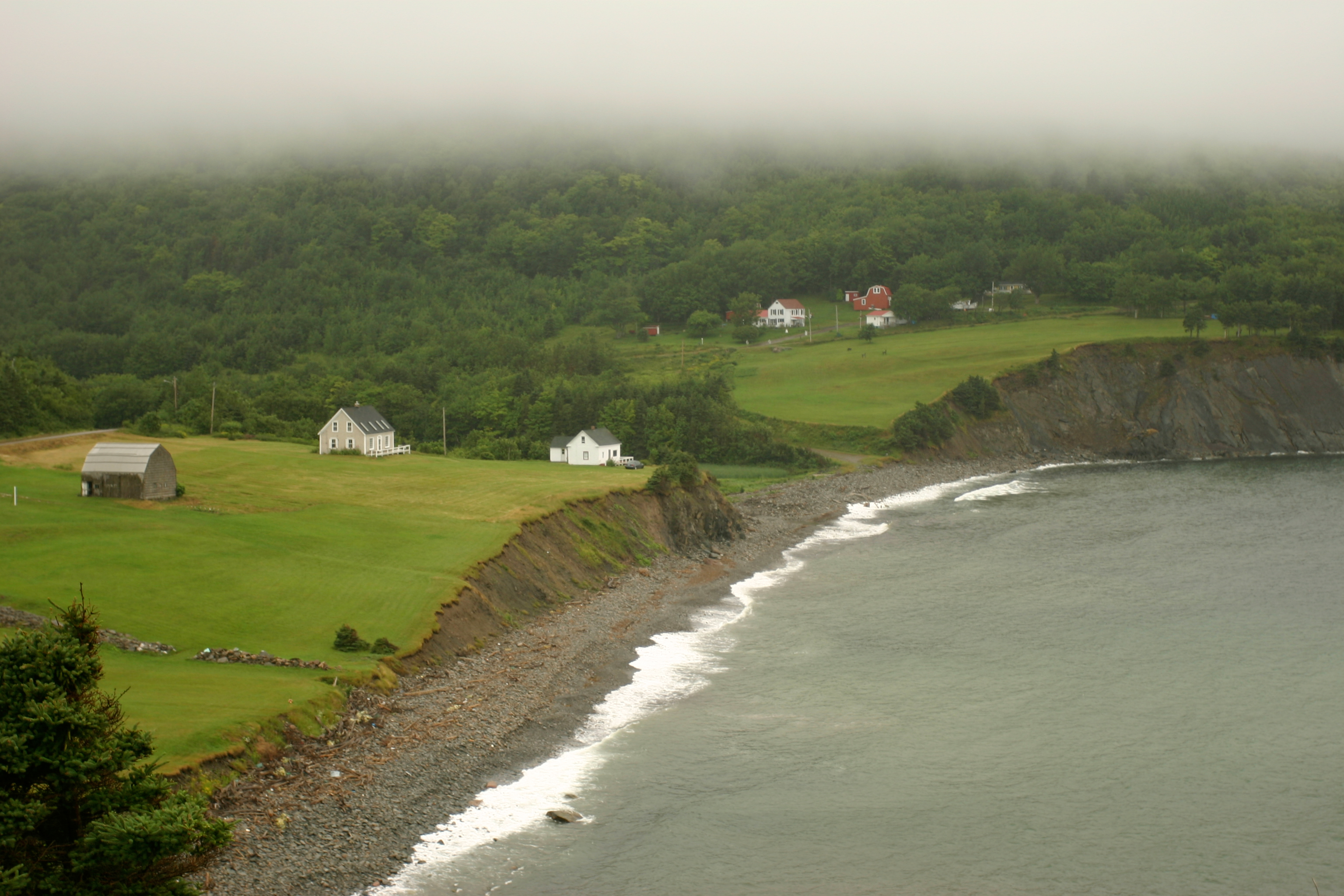 It rained on us all Monday, apparently there was a rainfall warning, who knew! This was on the drive up to Meat Cove.